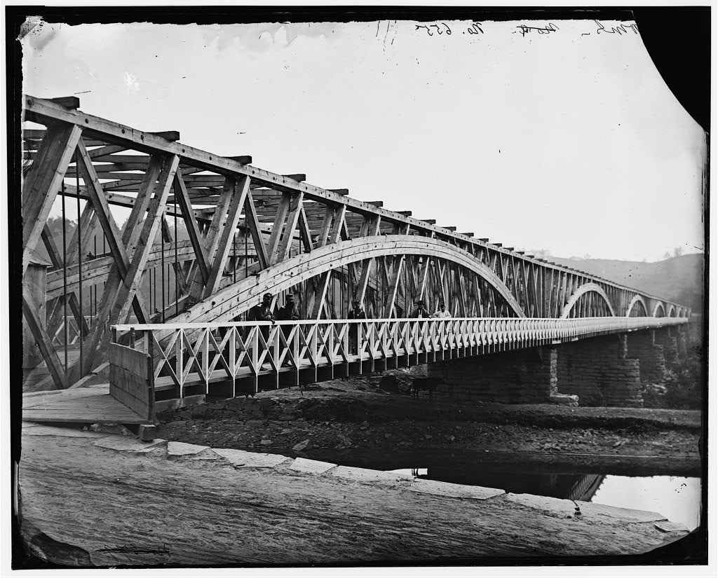 Summary: Photograph of Washington, 1862-1865, the capital at war.